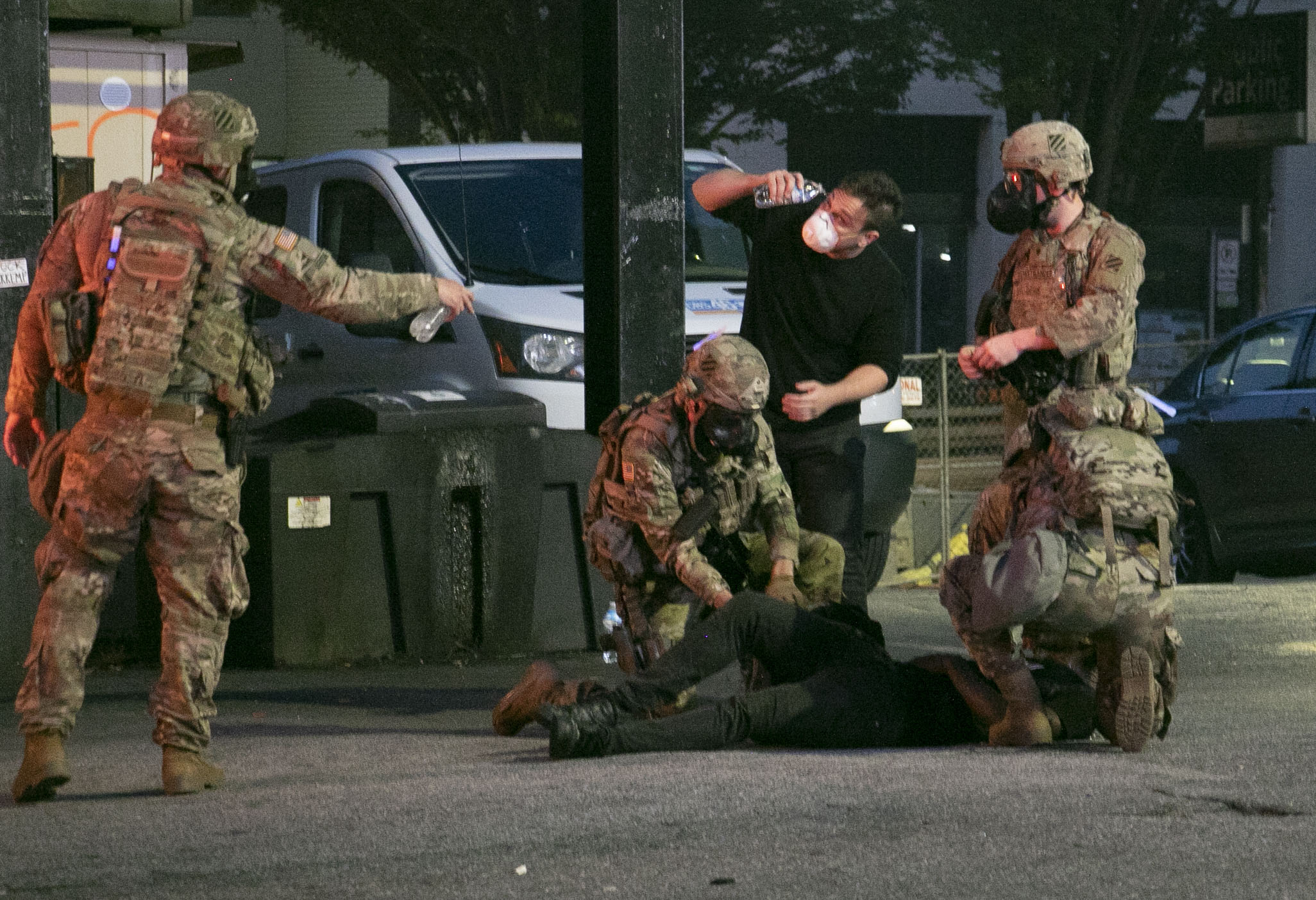 Georgia Army National Guard medics with the Calhoun-based 1st Squadron, 108th Cavalry Regiment, assist a protest demonstrator effected by tear gas during curfew enforcement in downtown Atlanta on June 2, 2020. (U.S. Army photo by Staff Sgt. Amy King)